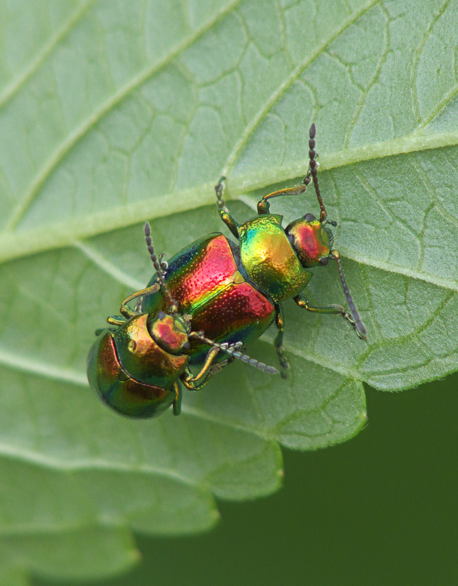 Chrysolina fastuosa